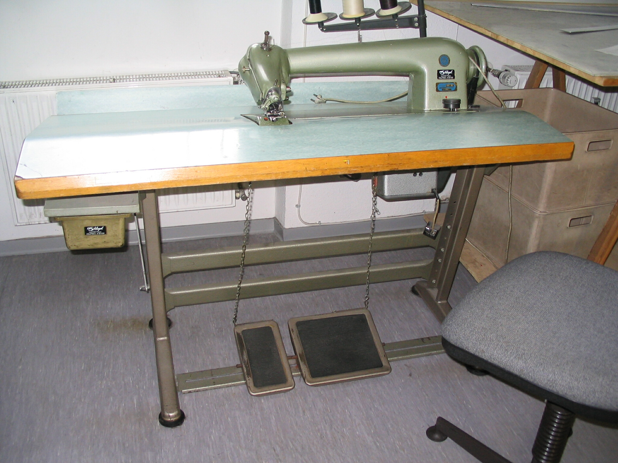 Furrier's tools: Prick stitch machine 'Master'